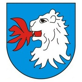 Coat of arms of Dukora